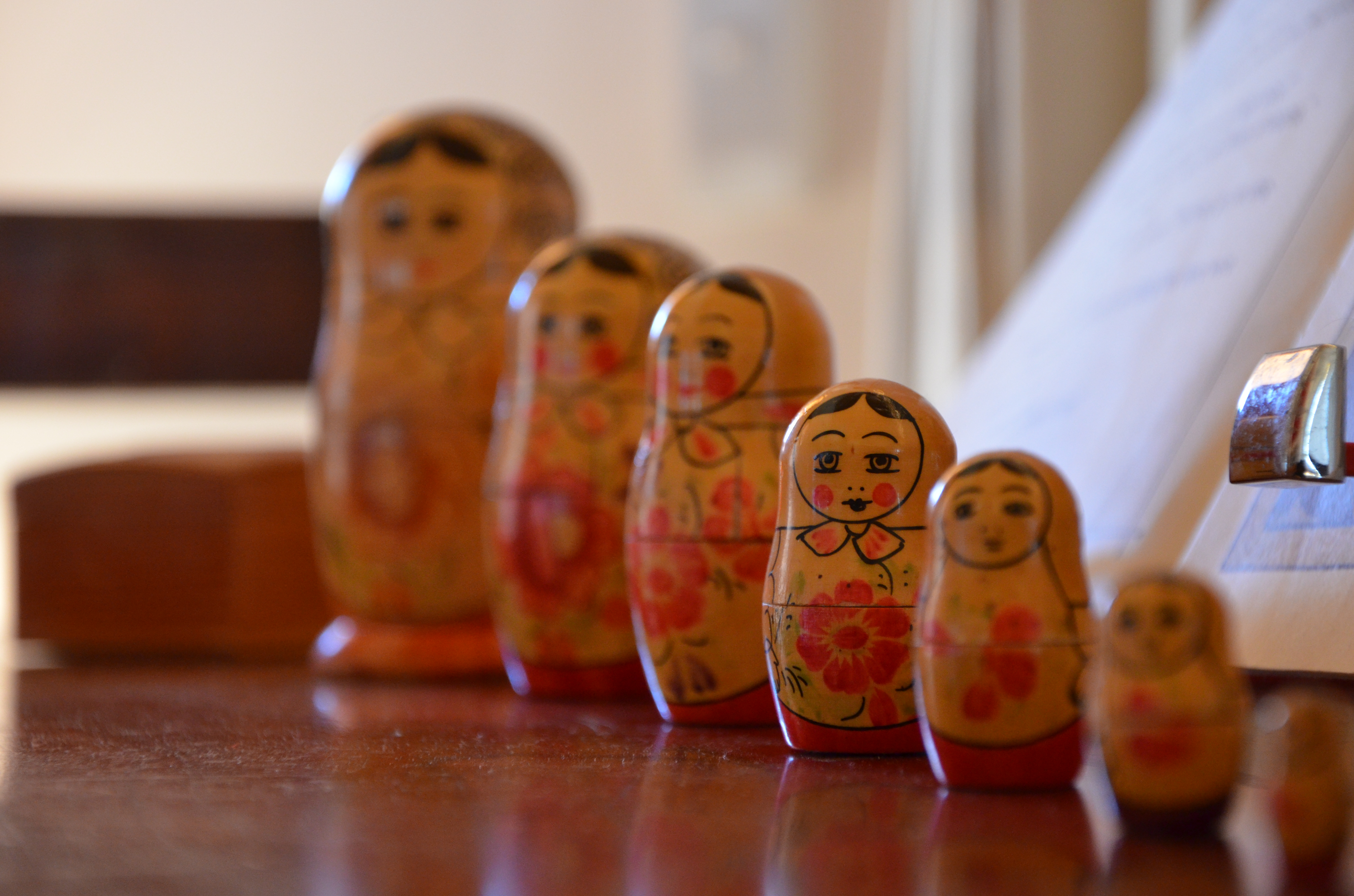 Russian Dolls